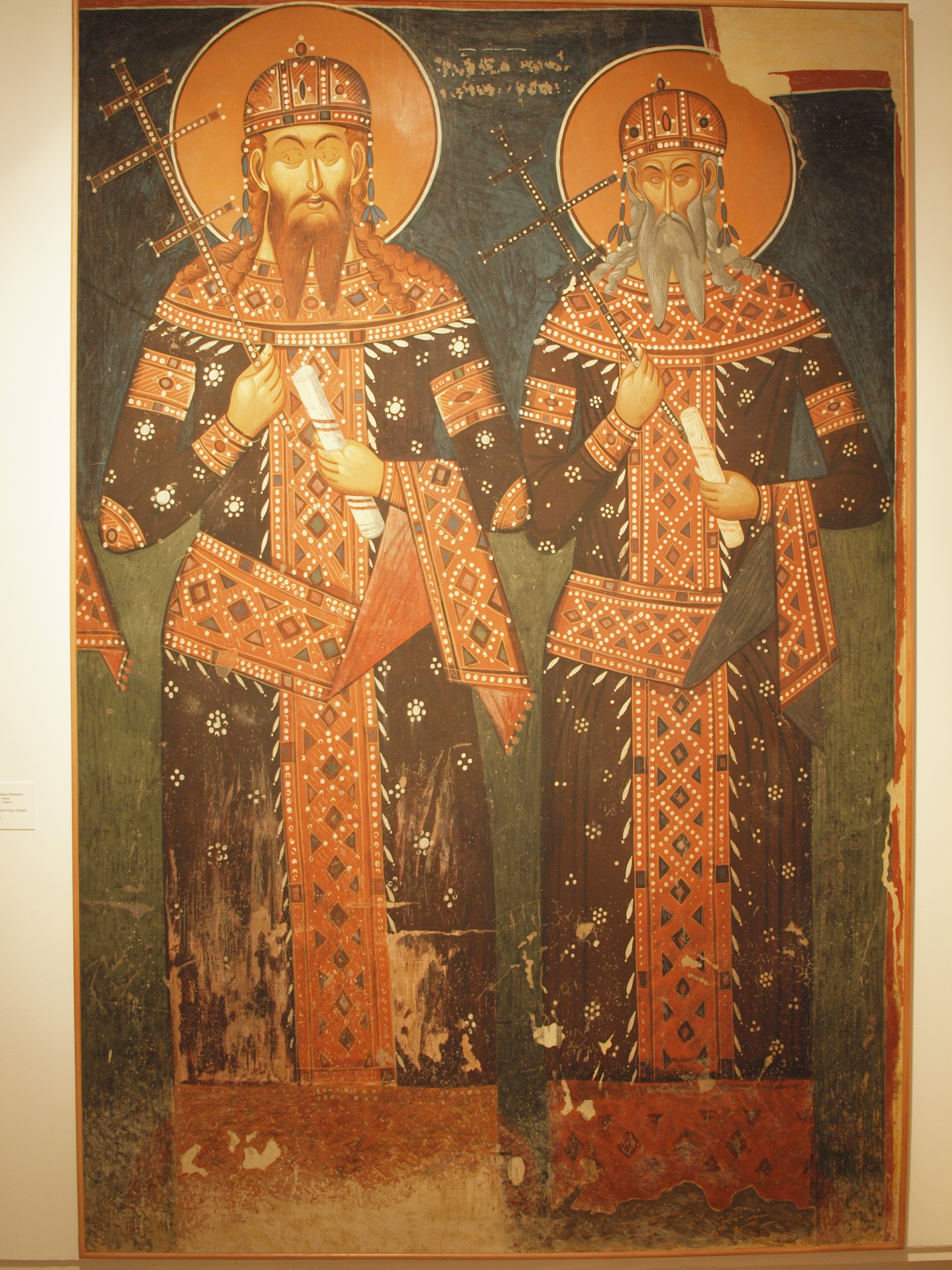 Copy of fresco from the St. Nicholas Church in Psača depicting Emperor Stefan Uroš V and King Vukašin.